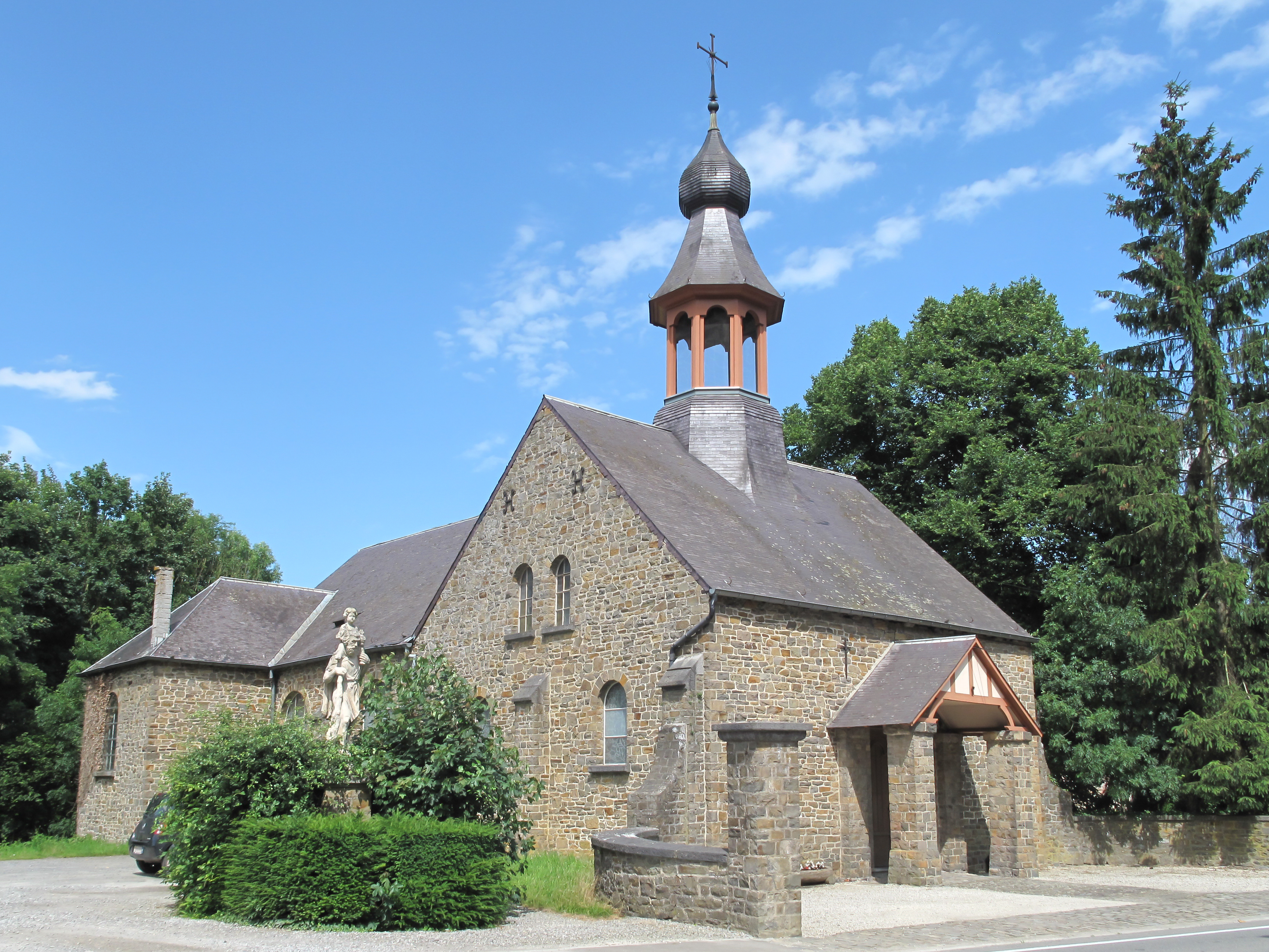 Hun, chapel: chapelle Saint-Christophe